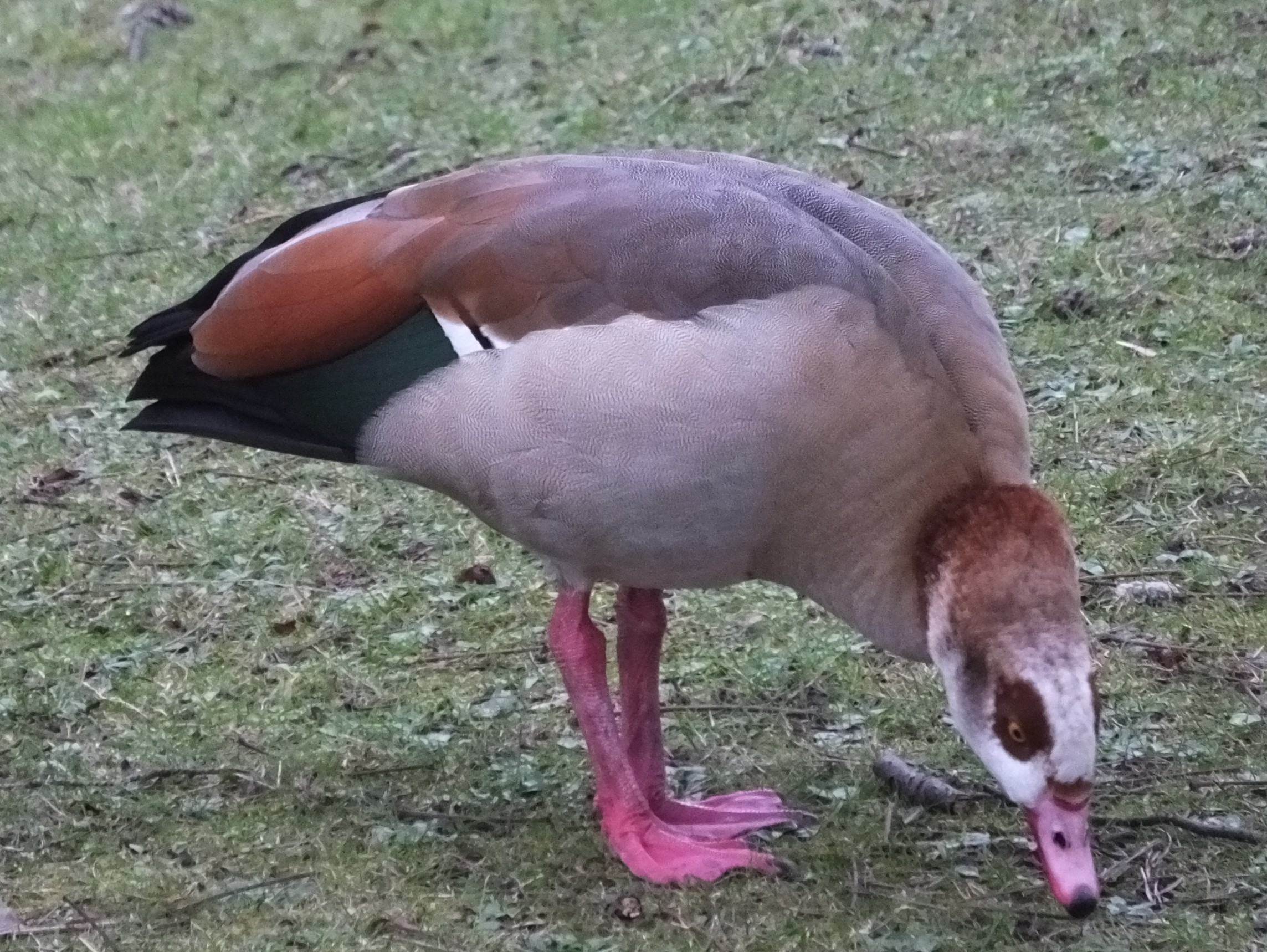 Highfields Park lake is home to much wildlife.